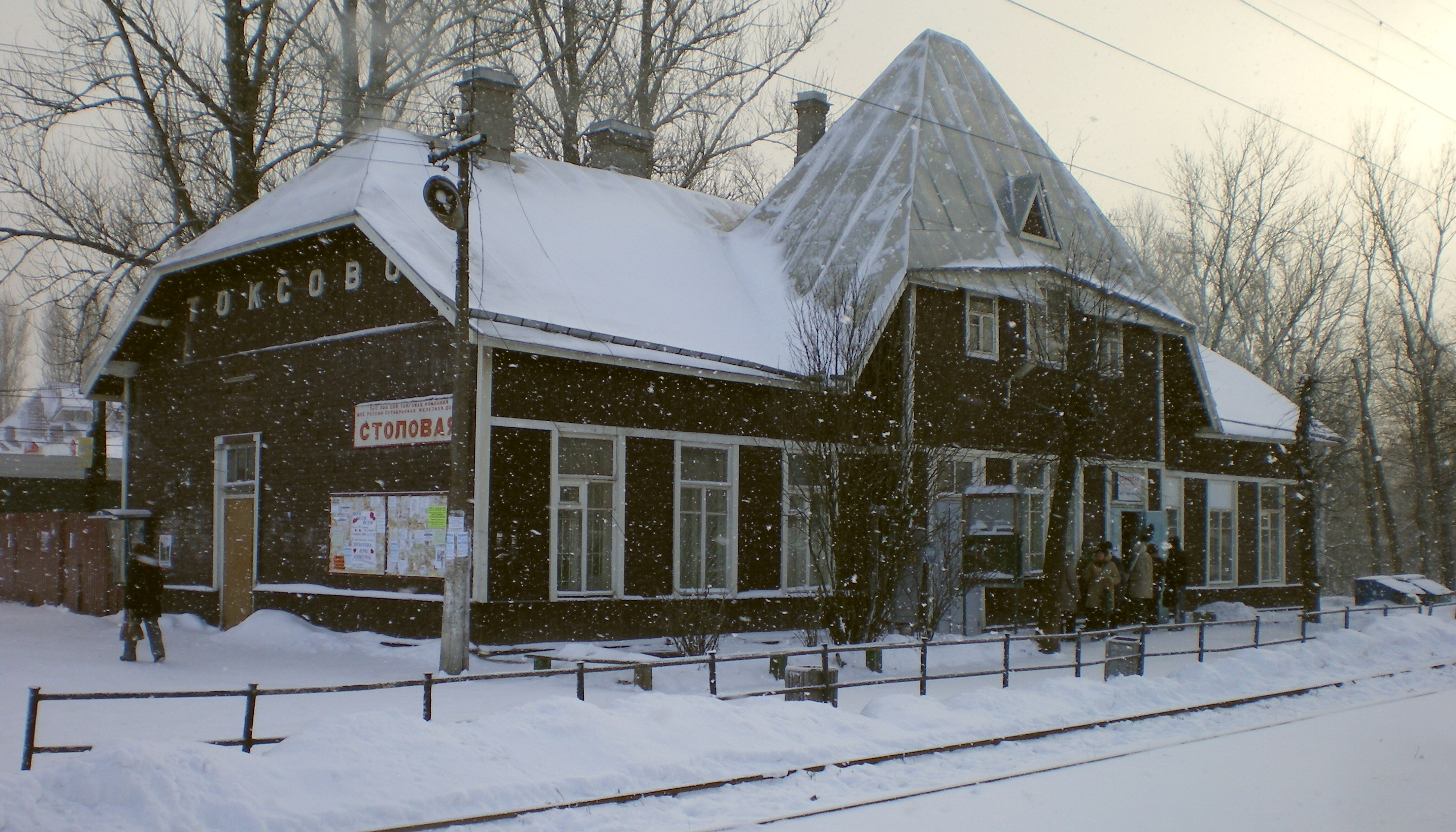 Train station "Toksovo"